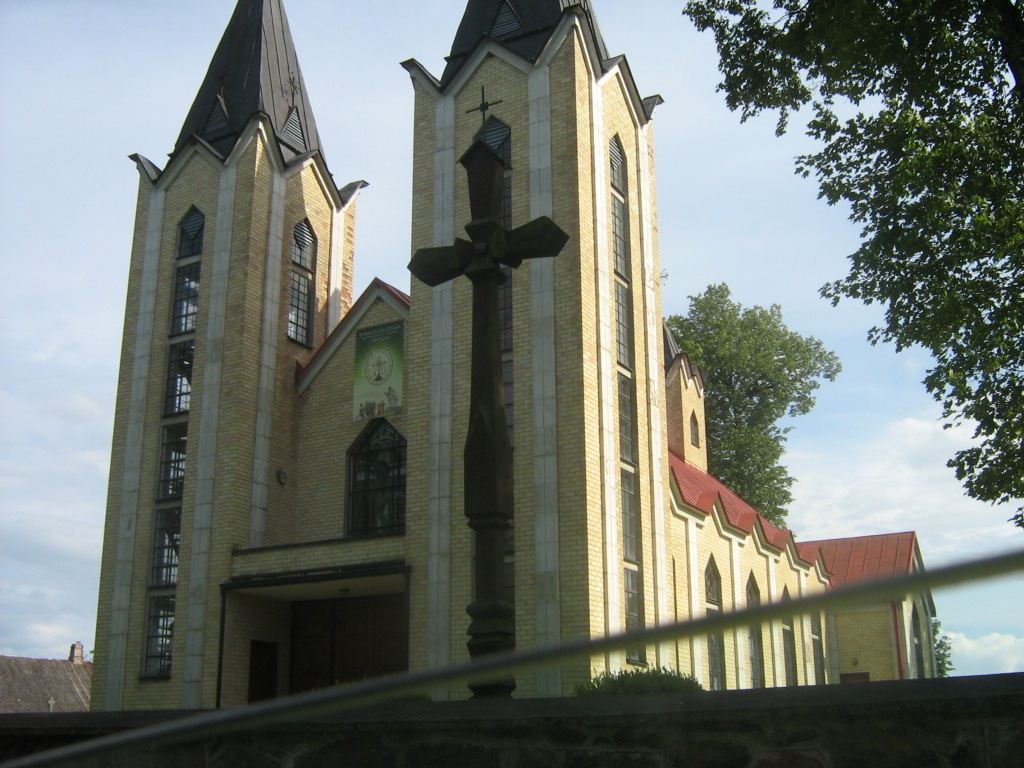 Church in Panoteriai